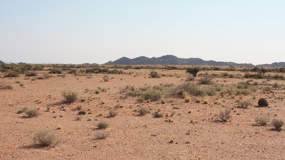 Typical Bushmanland landscape, Northern Cape Province, South Africa.